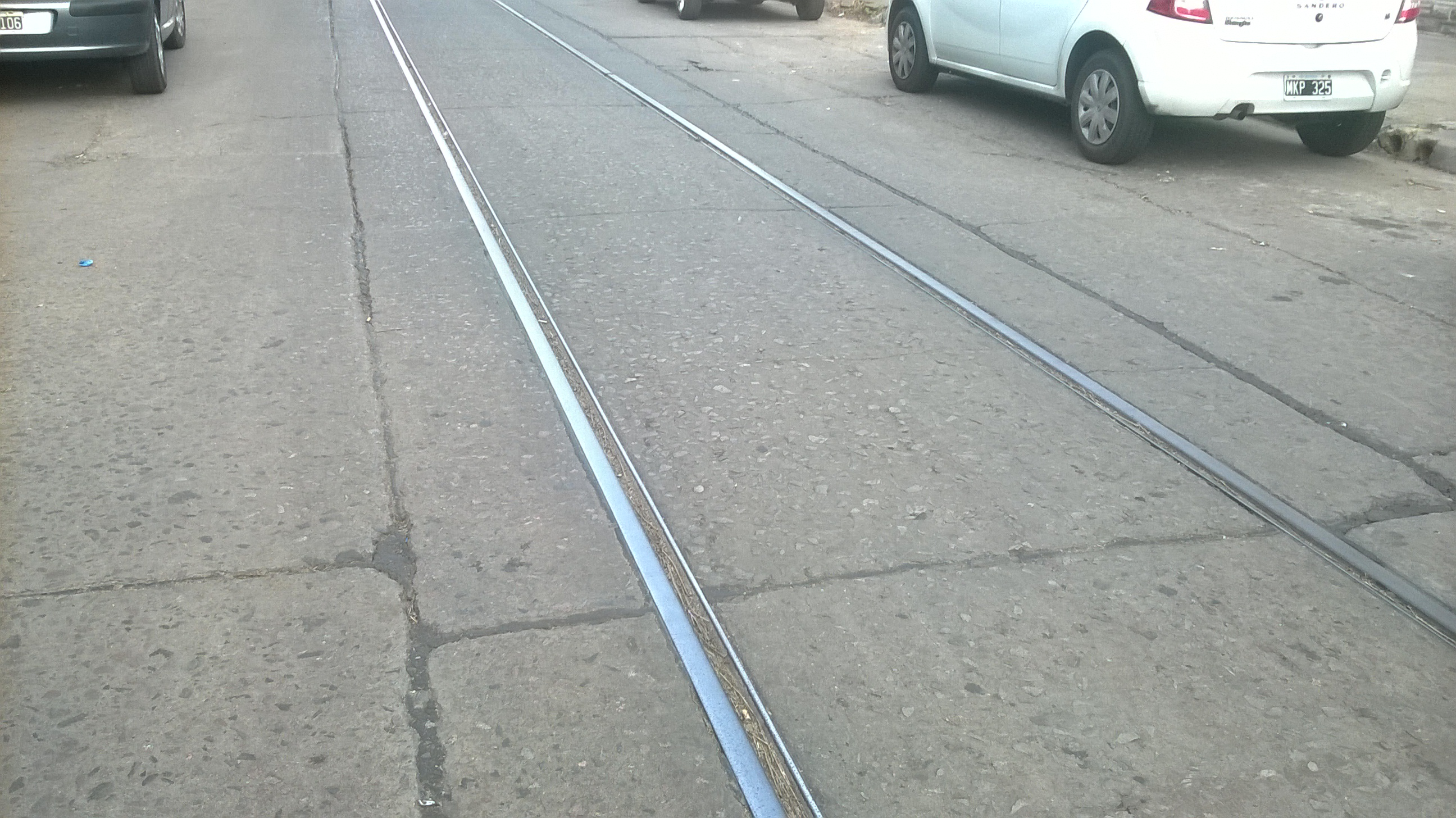 The remains of a street railway (tramway) in La Plata, Argentina. Once common in the larger cities of Argentina, trams were gradually replaced by other forms of public urban transportation, but it is still possible to see unused rails in cobblestone streets, sometimes partially covered by newer asphalt.